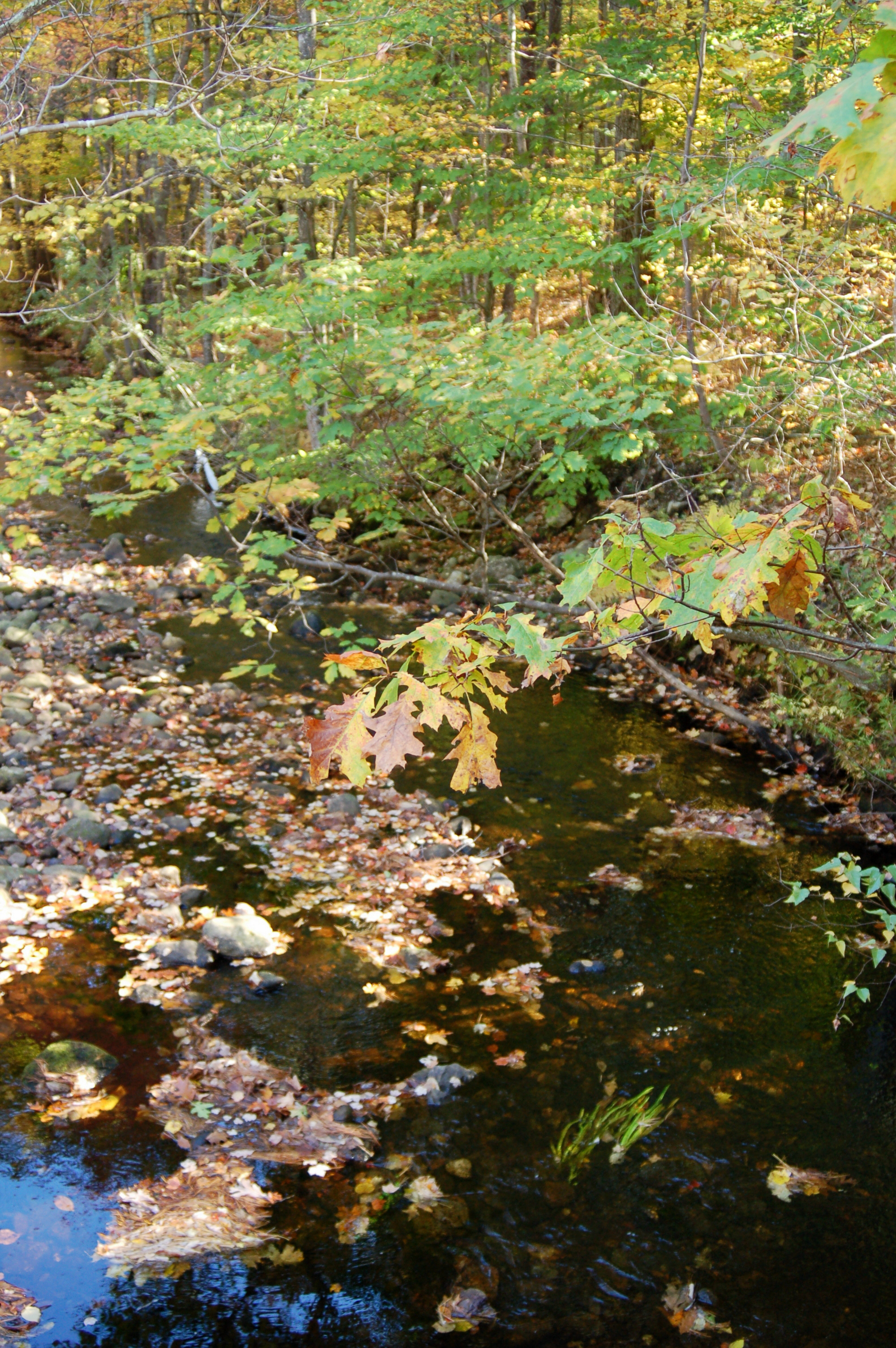 Stllwater head near Princeton, Massachusetts. Photo by Author, Richard B. Johnson